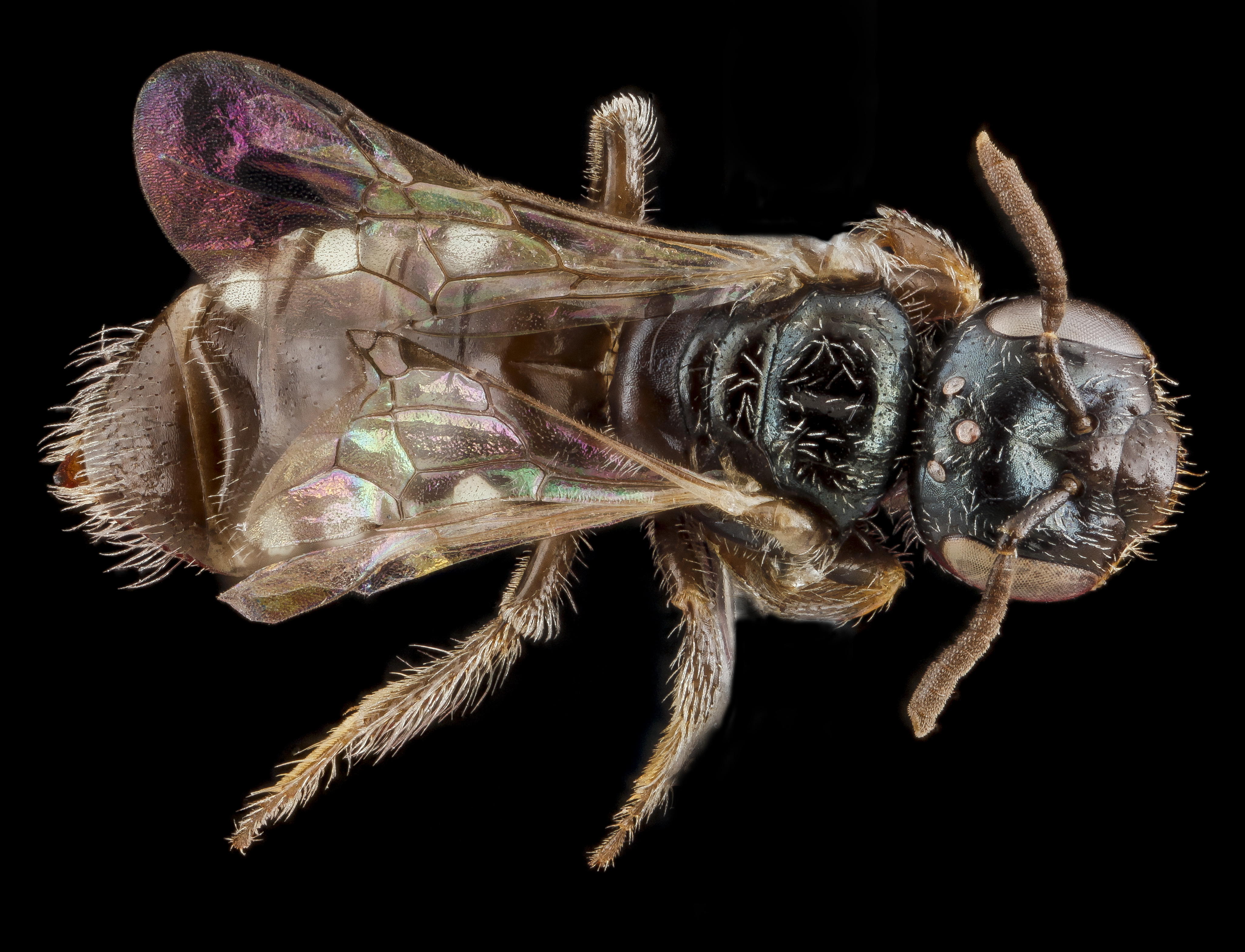 Perdita sexmaculata. Petrified Forest National Monument, Arizona, Apache County